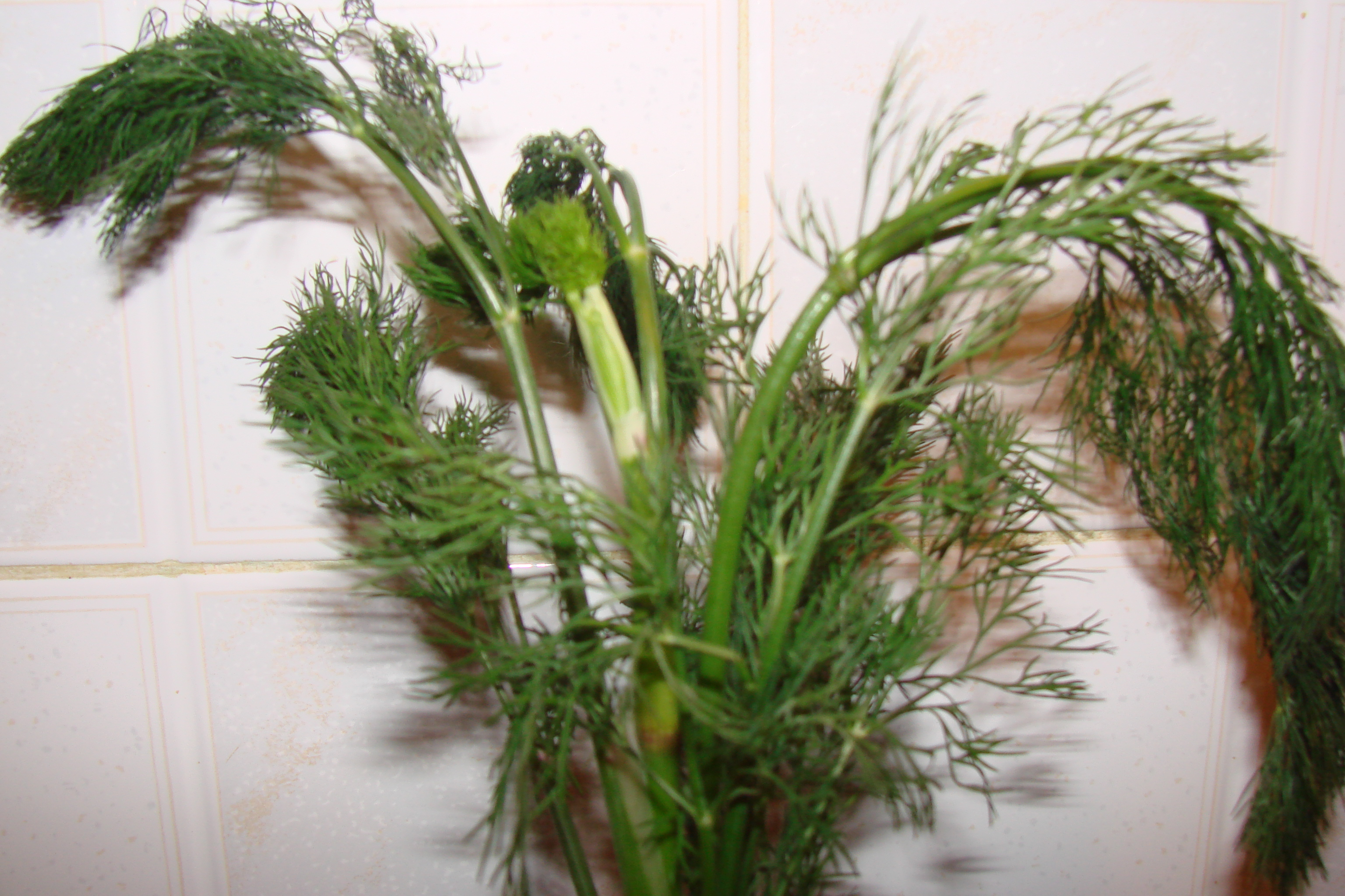 Dill (Anethum graveolens)